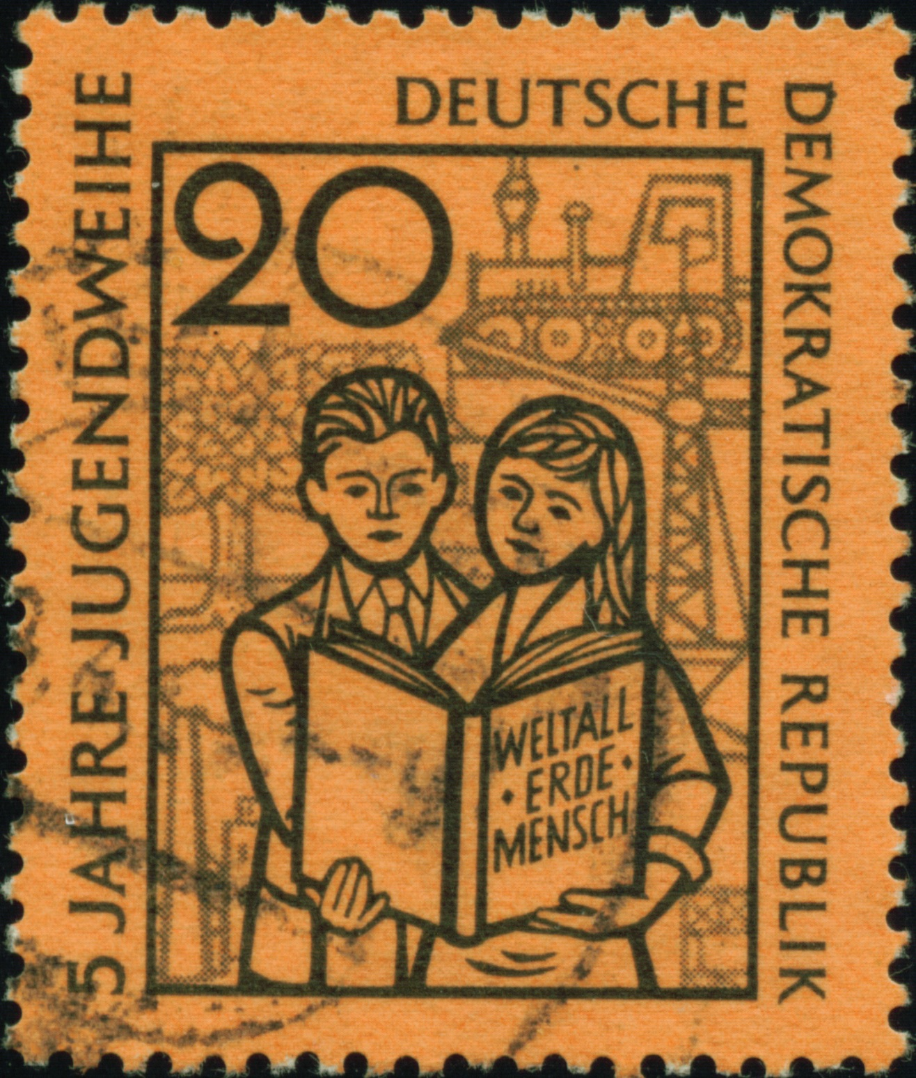 DDR stamp to celebrate 5 years of the official initiation ceremony ("Jugendweihe").